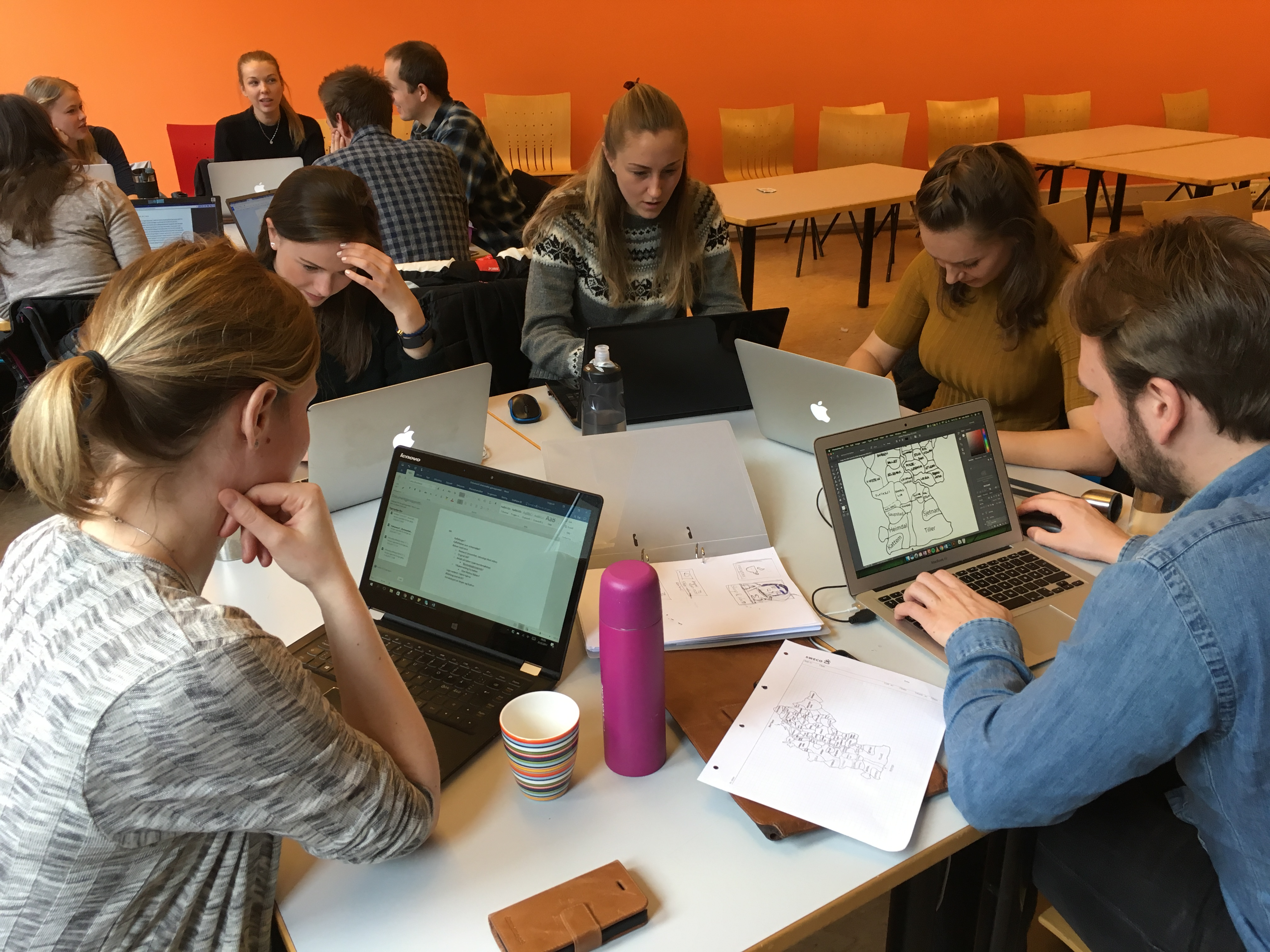 Students at the Norwegian University of Science and Technology (NTNU) in Trondheim, Norway, working in a group in one of the "villages" in "Experts in Team", a compulsory education program for master students.